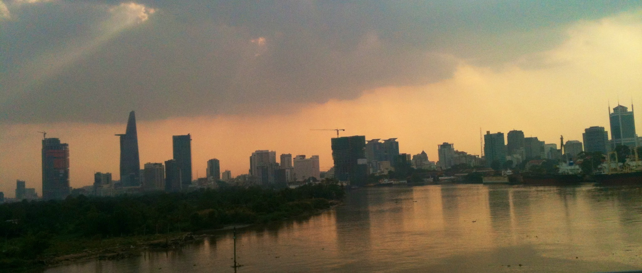 Sunset and storms rising on HCMC centre